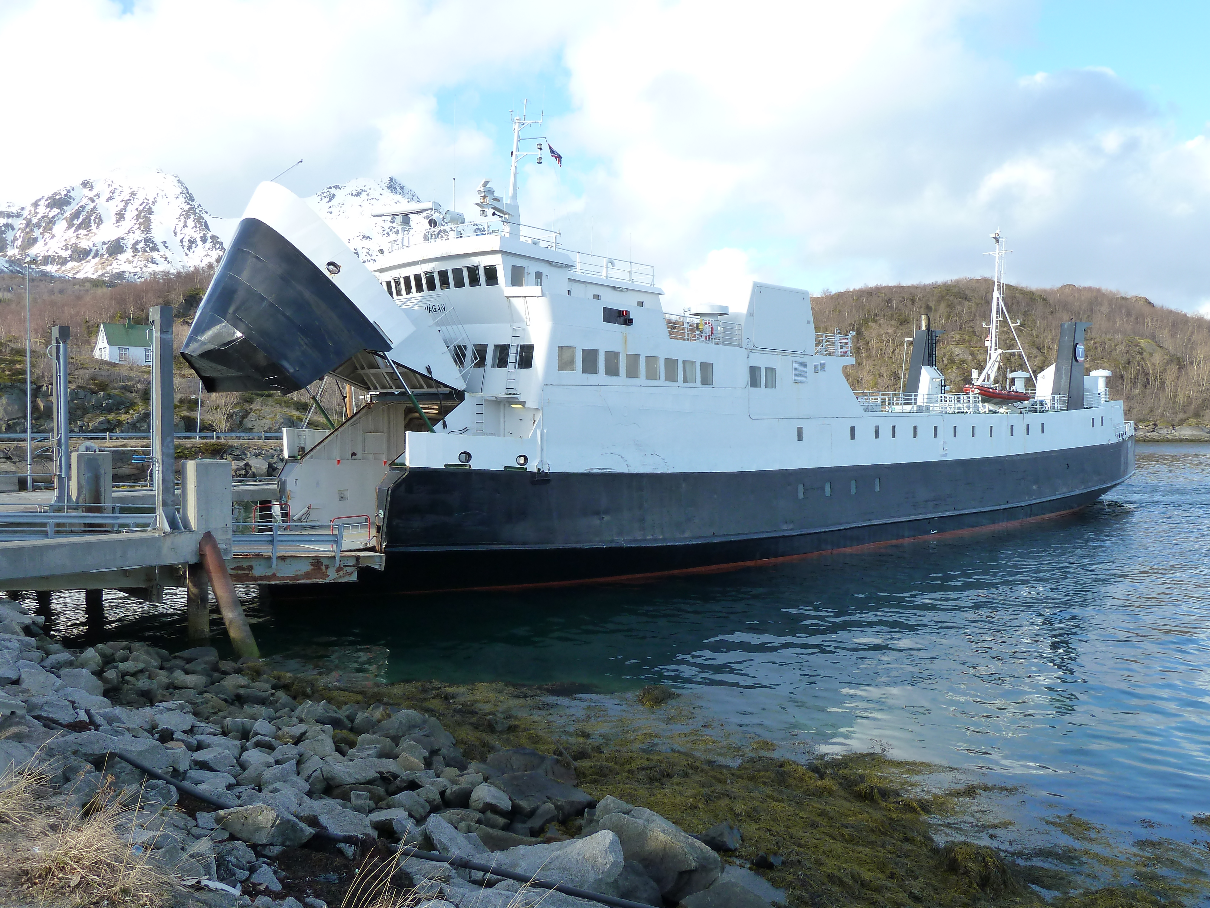 The Norwegian car-ferry "Vågan" in Skutvik.